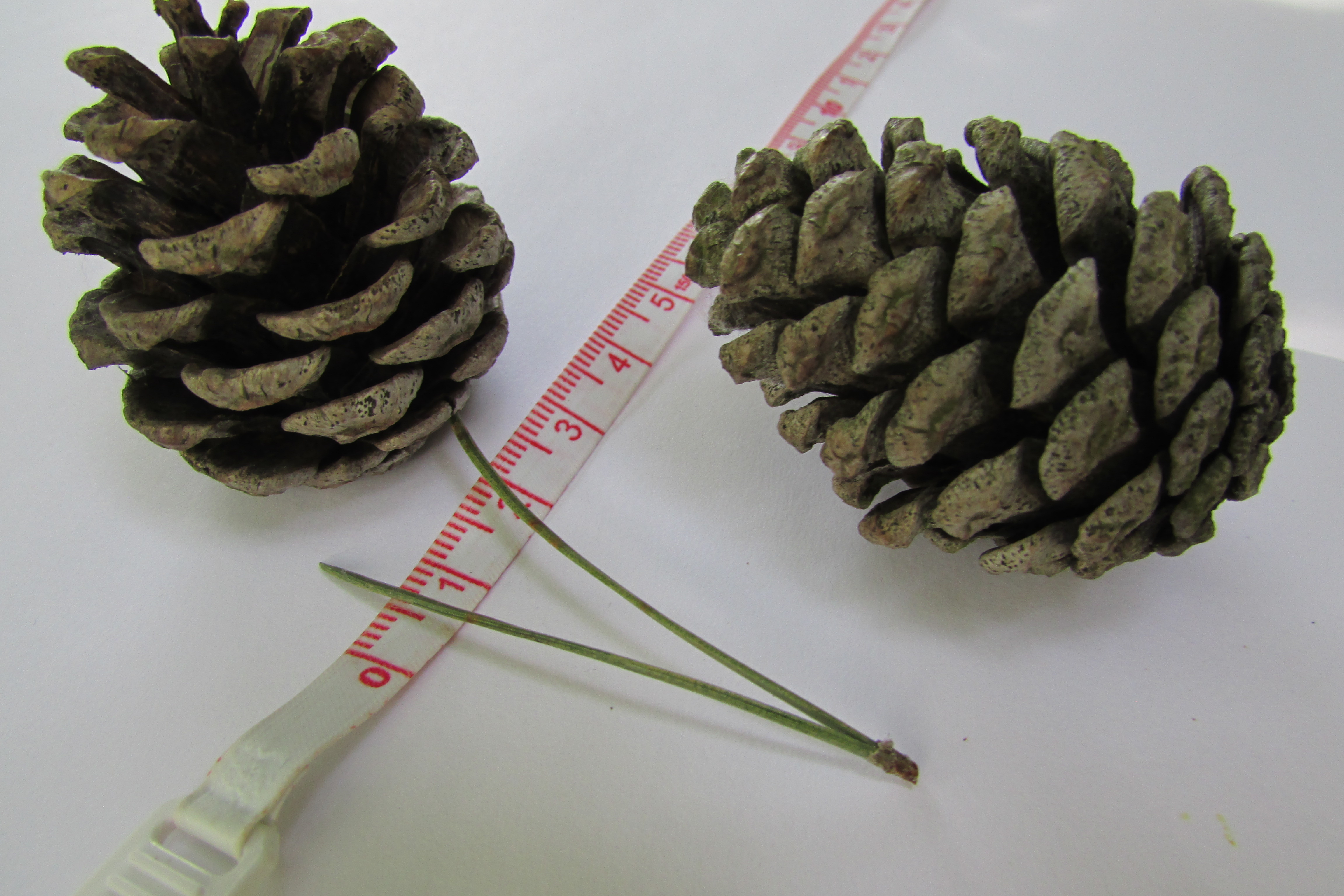 Jack Pine (Pinus banksiana) Cones are Serotinous, persistenting on the tree for several years; 1 1/2 to 2 inches long, curved, light brown but graying with age. Evergreen needles, 3/4 to 1 1/2 inches long, two twisted, divergent needles per fascicle.